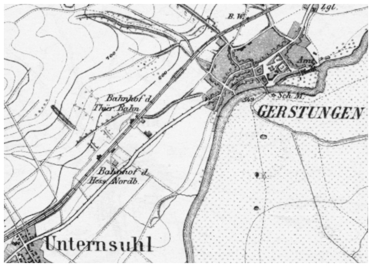 Railroad and stations near Gerstungen in 1860.